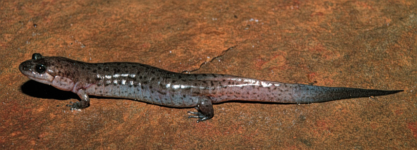 Desmognathus fuscus